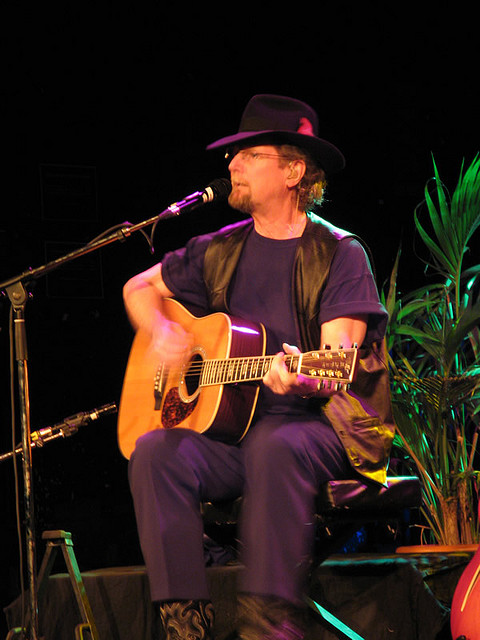 Roger McGuinn performing live at the Tivoli, Utrecht, The Netherlands on 2009-07-15